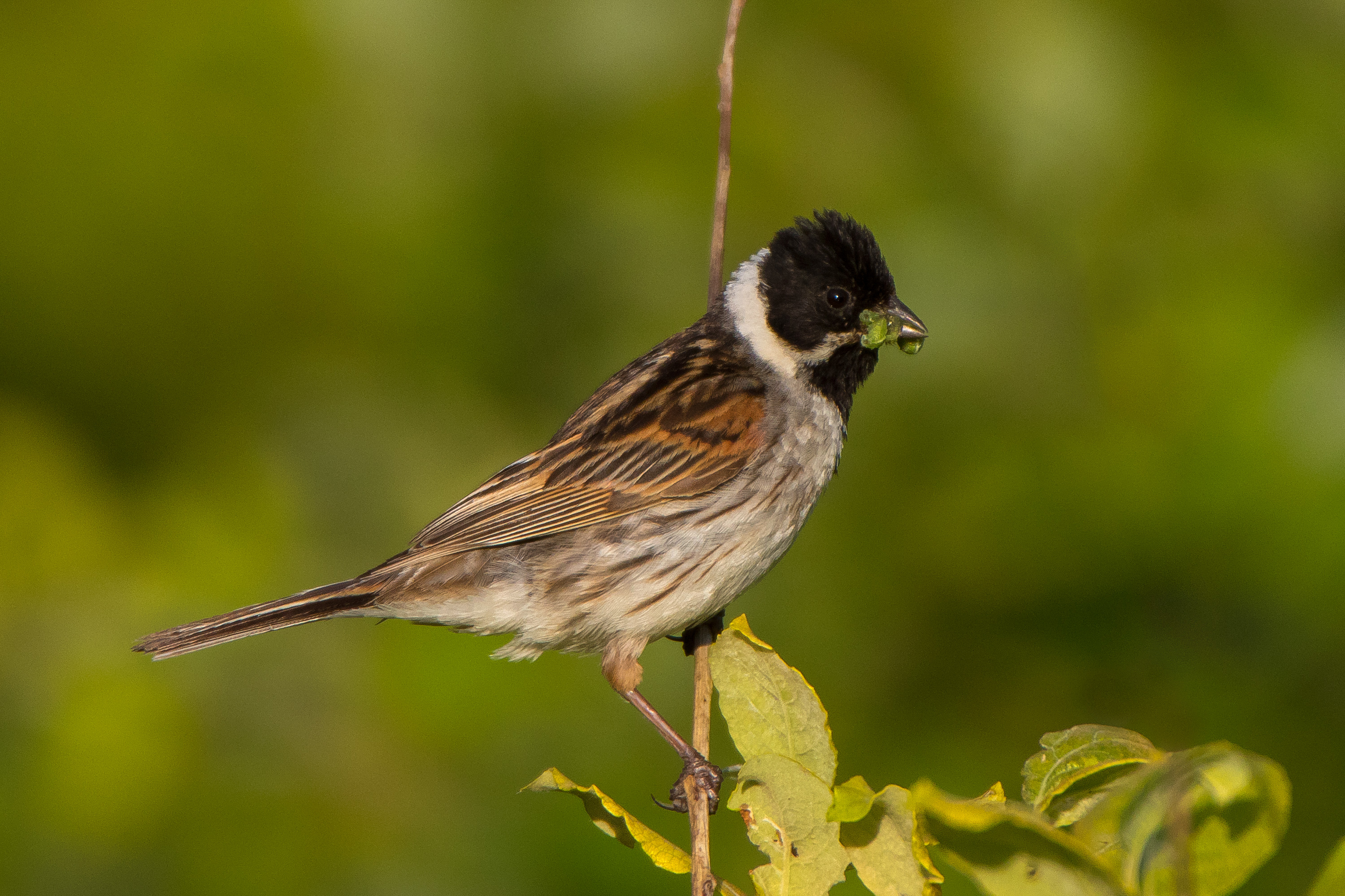 male Common reed bunting in breeding plumage